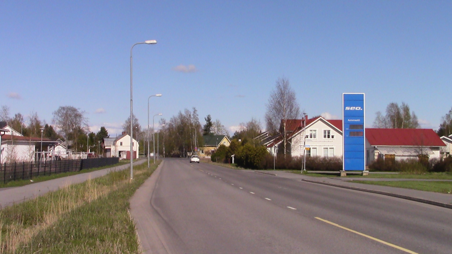 Connecting road 2550 at Murtosenmutka suburb in Pori, Finland. The road runs from Pori to Kullaa.